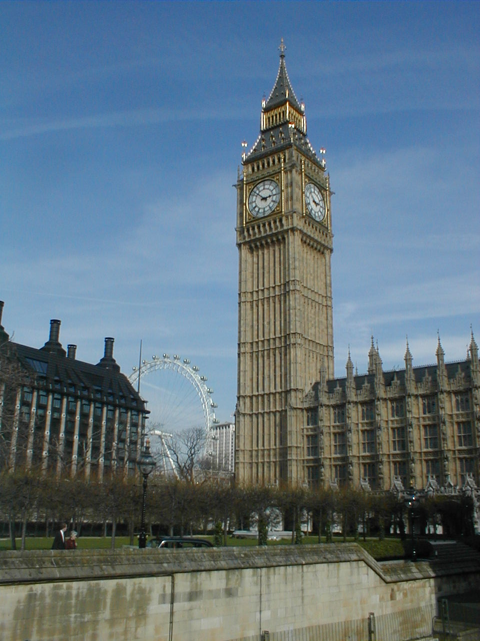 Parliament of the United Kingdom with the Millenium Wheel in the background.